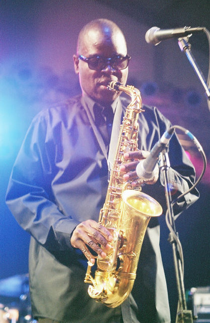 Maceo Parker performing at the 2002 Bonnaroo music festival in Manchester, Tennessee